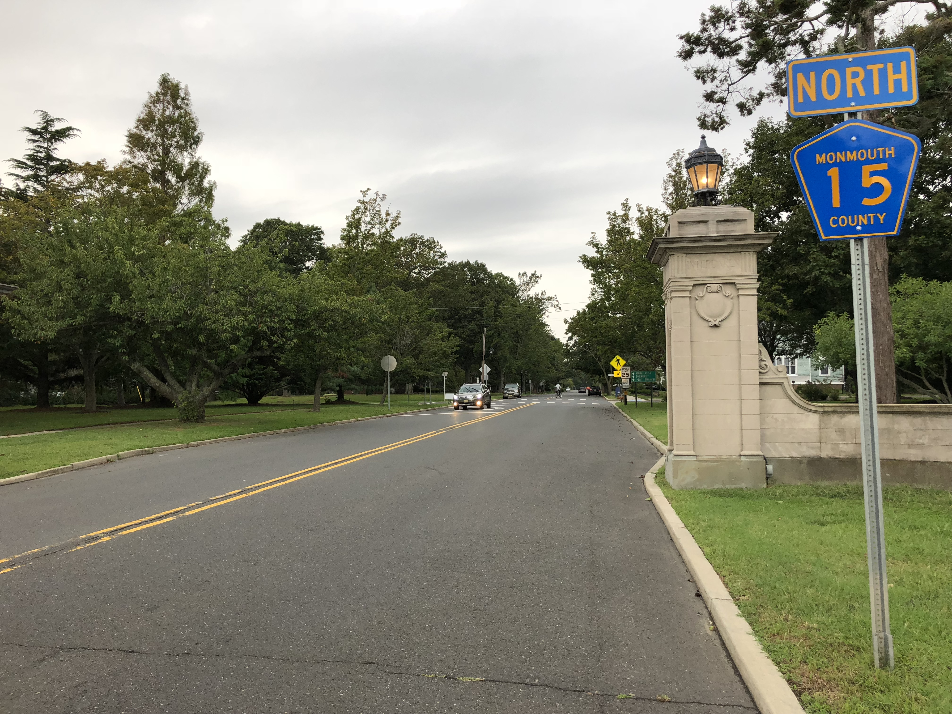 View north along Monmouth County Route 15 (Grassmere Avenue) just south of Bridlemere Avenue/Interlaken Drive in Interlaken, Monmouth County, New Jersey